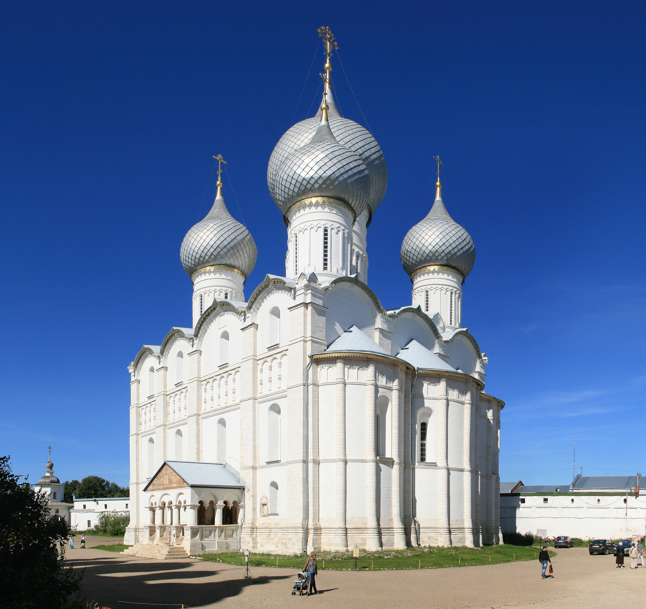 Cathedral of the Dormition of the Theotokos, Rostov Kremlin, Yaroslavl oblast